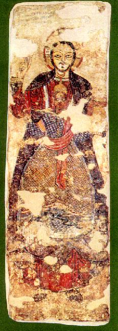 Eparch and Christ - Makuria, Nubia.